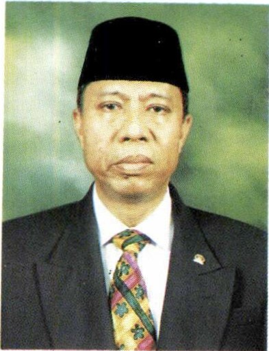 Official portrait of Syarwan Hamid as the vice speaker of the People's Representative Council in 1997.